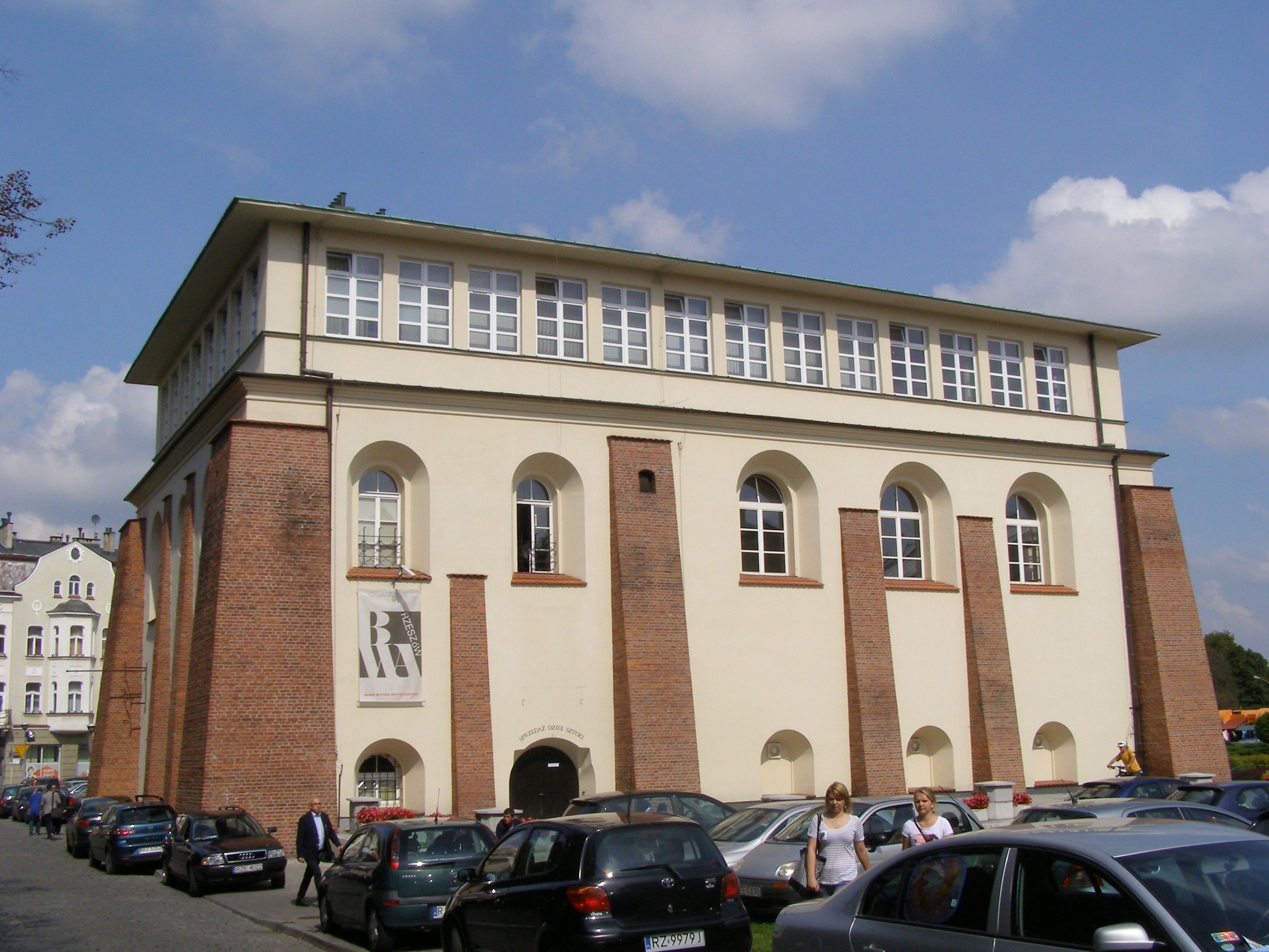 Rzeszów - New Town Synagogue